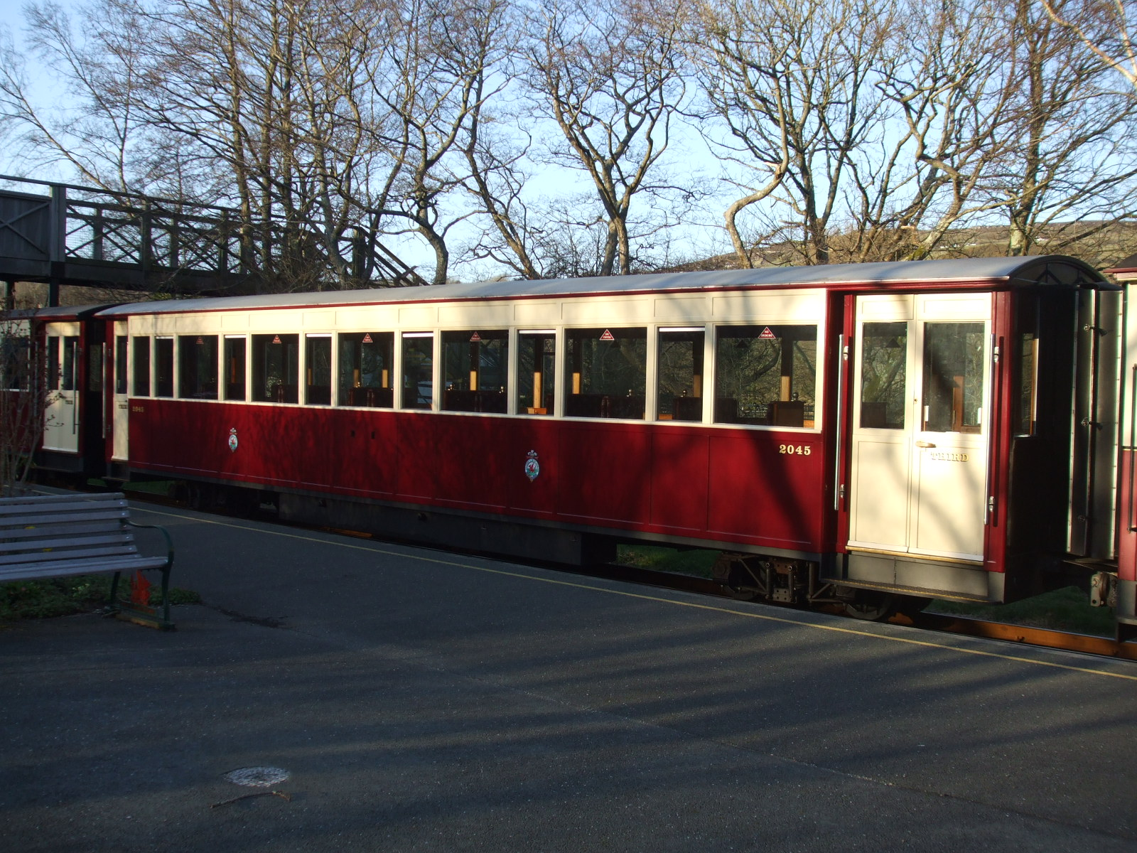 Welsh Highland Carriage 2045 at Waunfawr